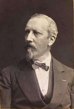 Svend Grundtvig (1824-1883), Danish folklorist